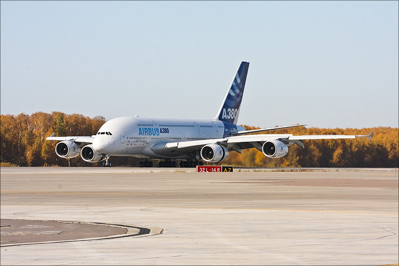 Airbus A380 in Domodedovo International Airport, October 17 2009.